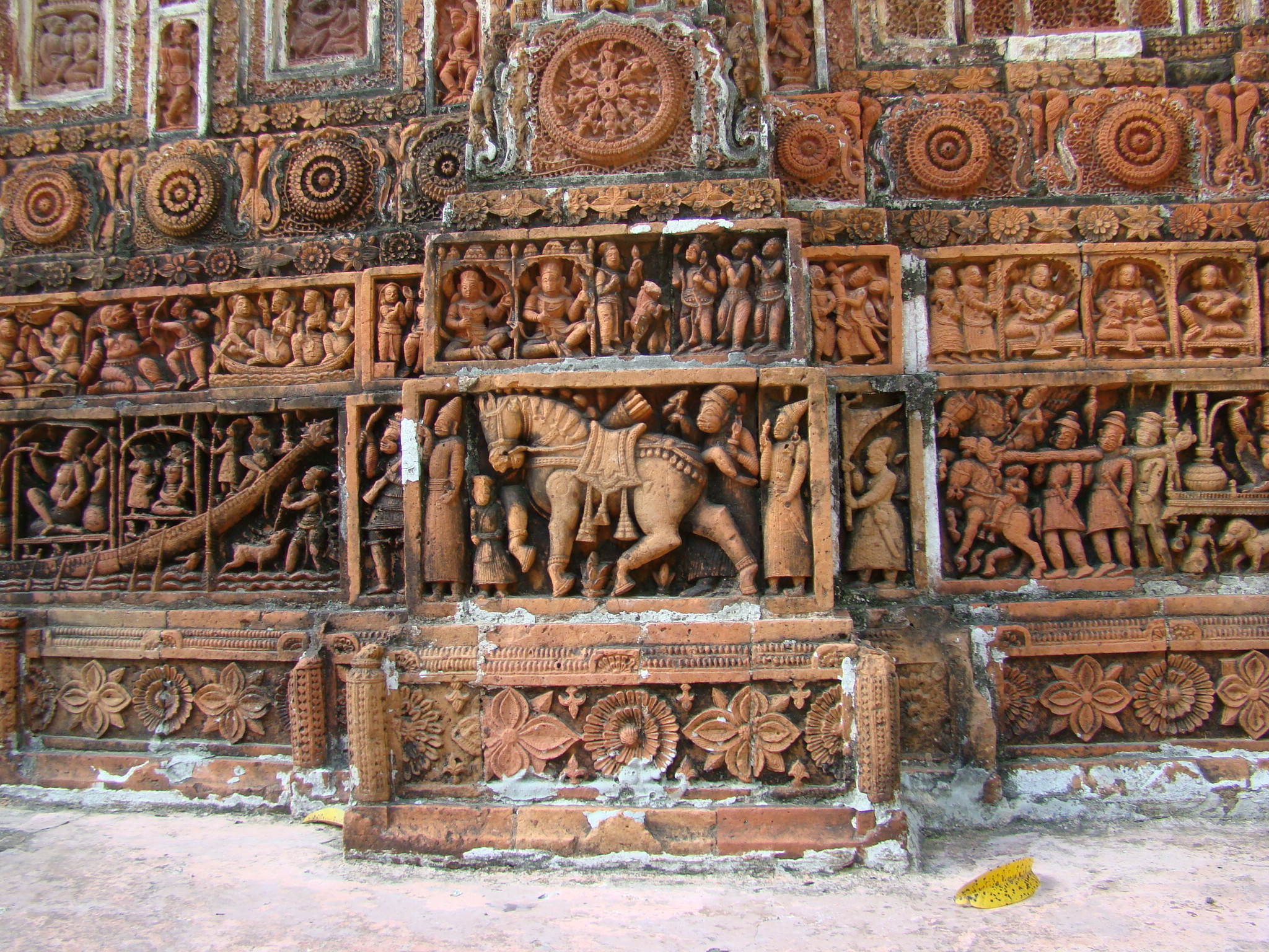 Kantaji (Kantanagar) Temple Dinajpur Bangladesh